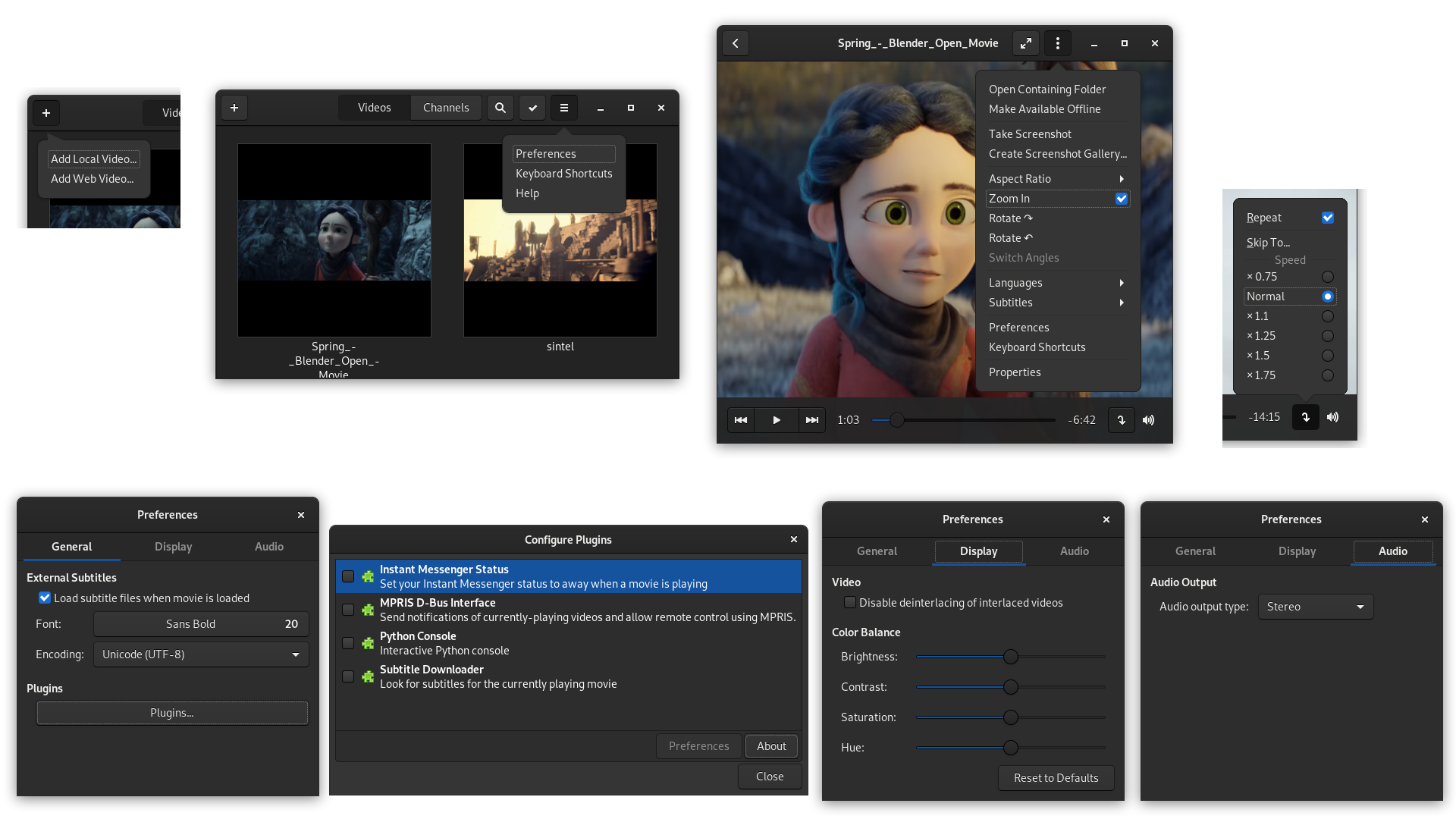 GNOME Videos 3.34 with its preferences This PNG graphic was created with GIMP.